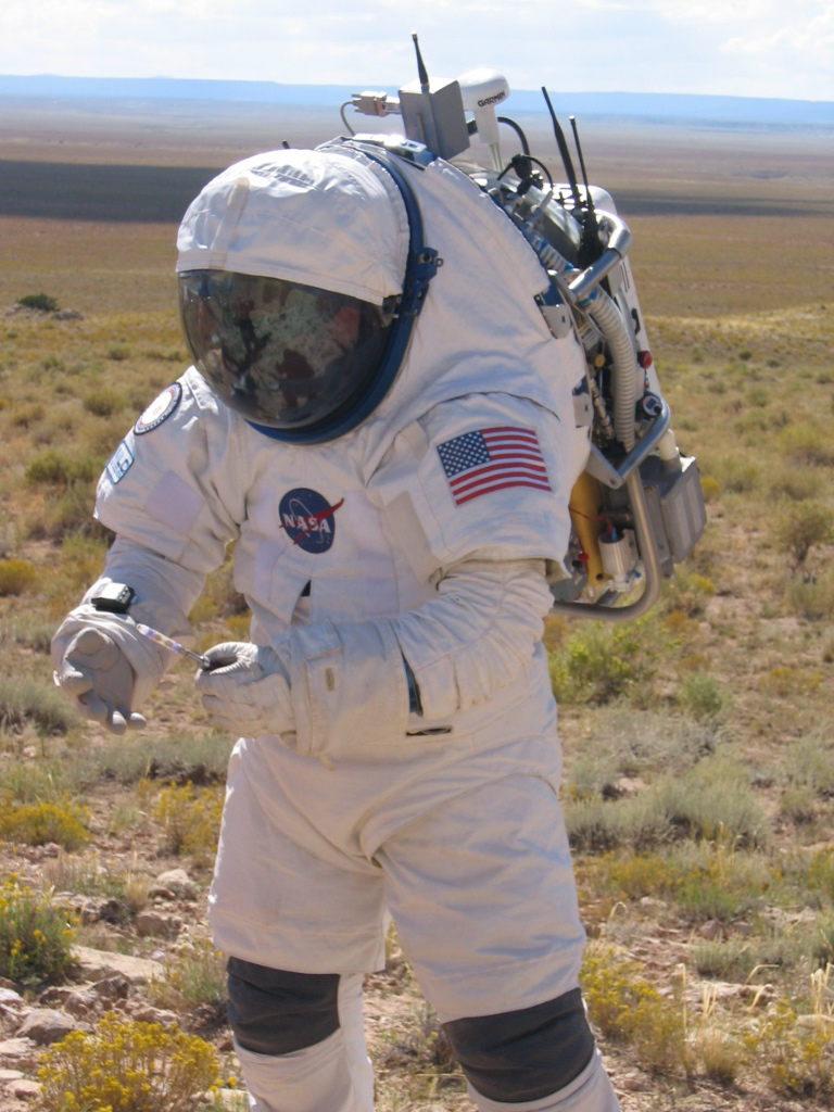 Keith Splawn (ILC Dover) tests the LOCAD-PTS swab system during simulated surface Extravehicular Activity (EVA) in the I-Suit at Meteor Crater, NASA Desert RATS 2005.